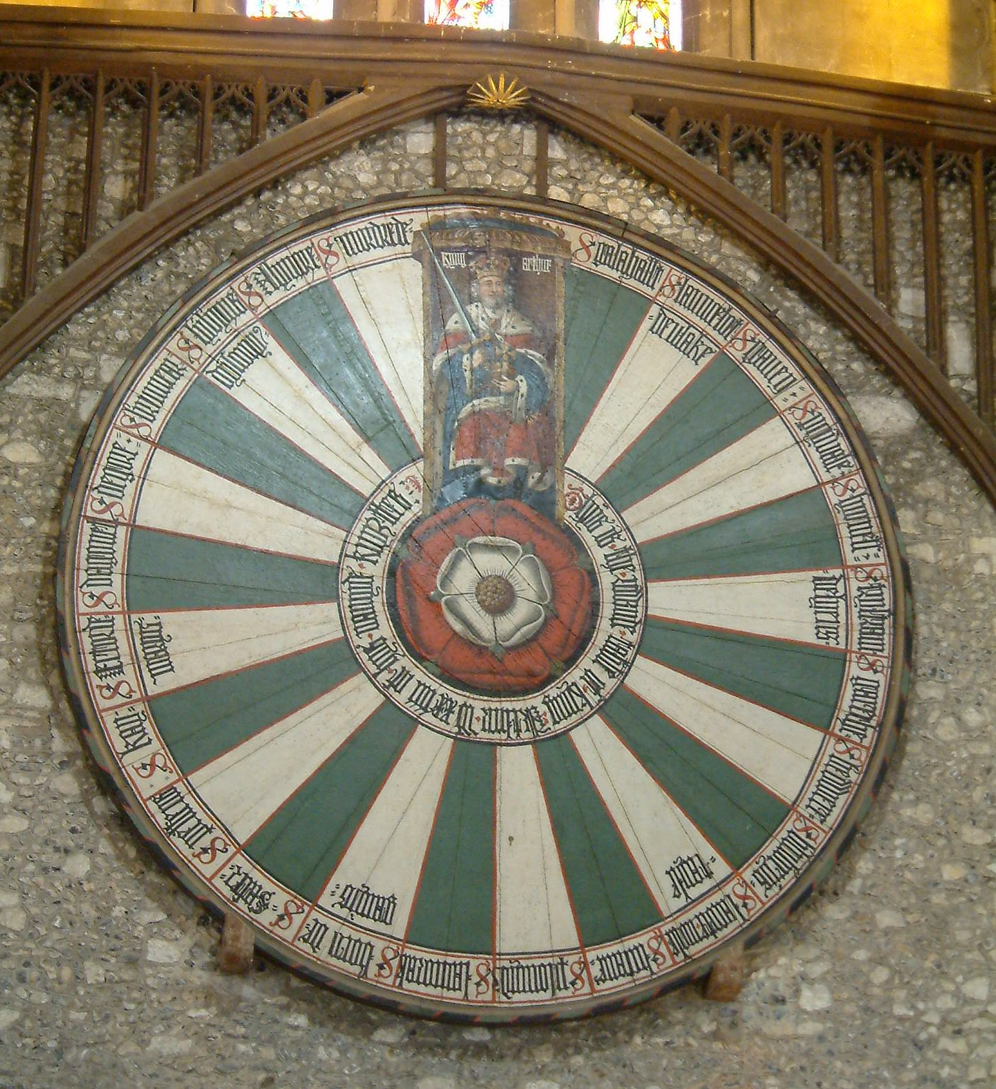 Round Table in the Grand Hall, Winchester, England, United-Kingdom